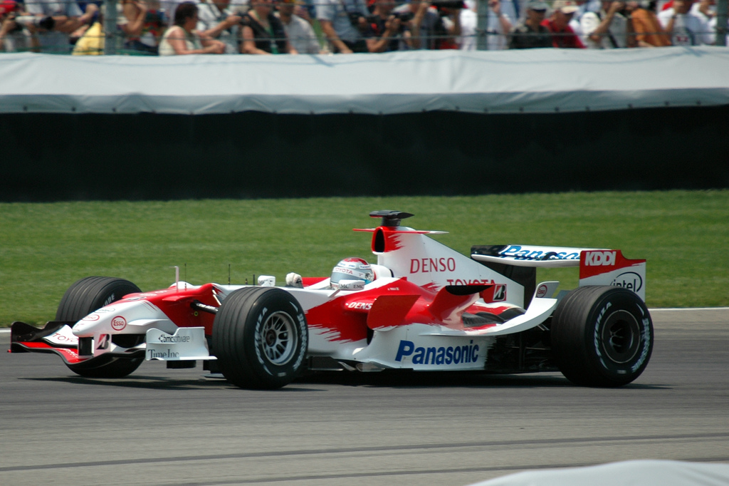 Jarno Trulli driving for Toyota F1 at the 2006 United States Grand Prix.